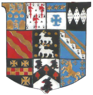 Heraldic achievement of Denys Rolle (1614-1638), detail from his monument in the Rolle Mausoleum, Bicton, Devon. Quarterings as follows: (See: Harding,Lt.-Col. William, An Account of the Ecclesiastical Edifices of Exeter, published in Exeter Diocesan Architectural Association Transactions, 1851–1853 and 1863, pp. 276–279, p.278) 1:Rolle 2:Dennis, Rolle heiress, heiress of the manor of Bicton 3:Dabernon of the manor of Bradford, Devon, Dennis heiress. 4:Giffard of Halsbury in the parish of Parkham, Dabernon heiress 5:Brewer, heiress of Giffard (given erroneously by Harding as "Stapledon") 6:Bockerell 7:Cristenstowe 8:Gobodesley 9:Chiderleigh 10:Donne (or Dunne) Quarterings 2-10 with the addition of Godolphin as the final quartering are visible on the much worn low-relief sculpted escutcheon over the main entrance to the Livery Dole Almshouses, Heavitree, Exeter, erected by the Denys family in the 16th century.